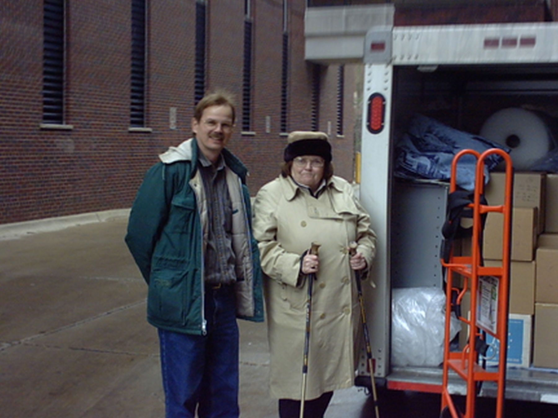 This photo shows Nancy Houk with Mike Castelaz from the Astronomical Photographic Data Archive (APDA) in 2004 when her collection was loaded on a vehicle for transfer to APDA.